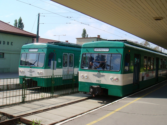 HEV, a small sized train bound for the suburb of Budapest and Szentendre